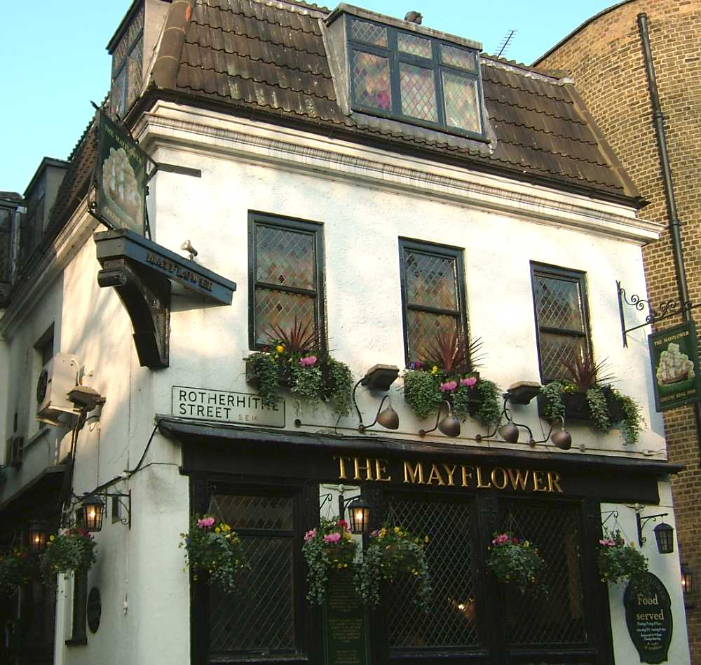 Historic pub "The Mayflower" in Rotherhithe. The Mayflower Pub was previously used for grain storage. Now one of South London's most beautiful pubs, the Mayflower has a traditional pub on the main floor with dining on the second floor.